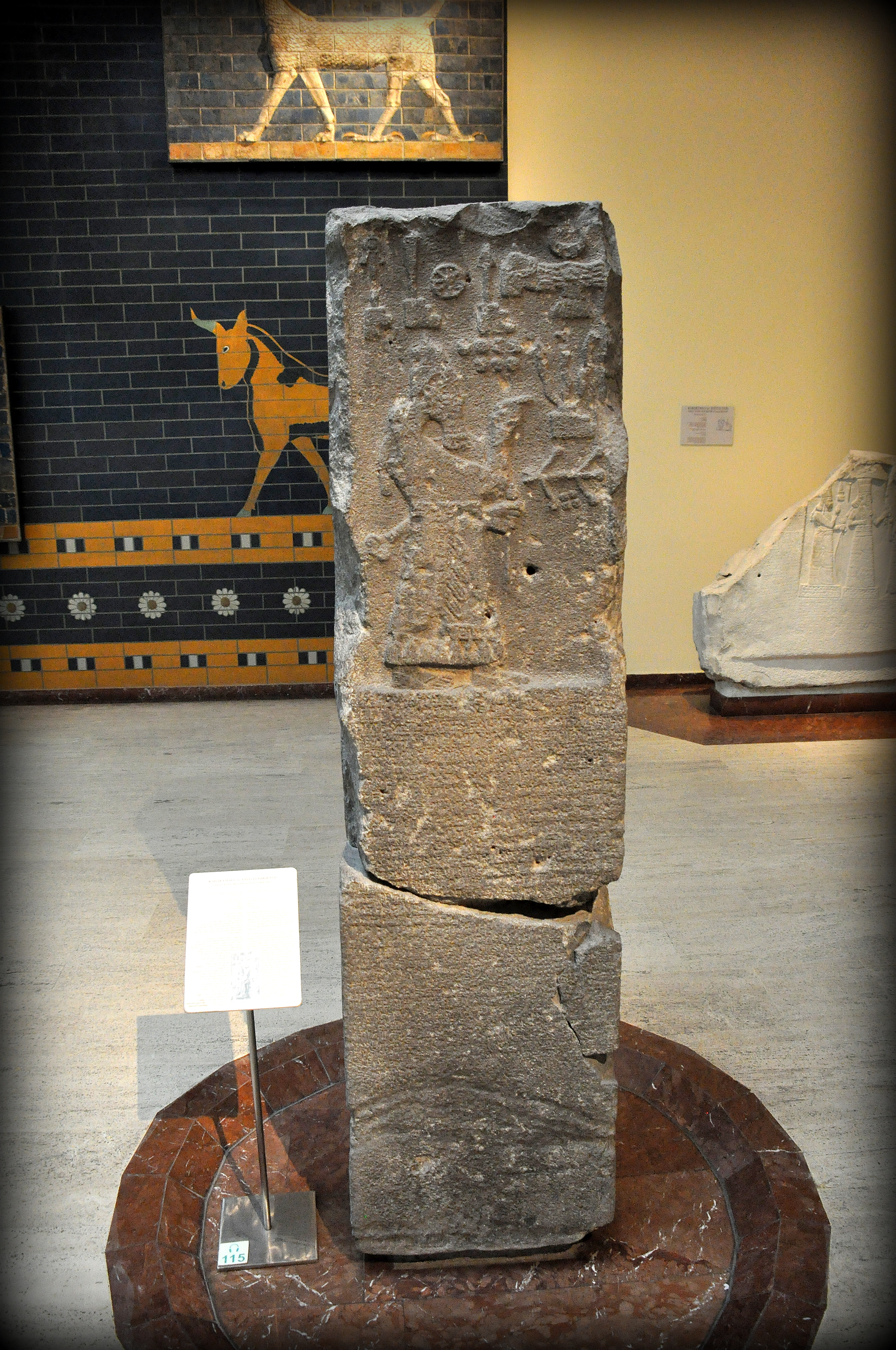 This basalt stele was erected by one of the king’s local governors, Nergal-Eres, at Saba. The stele’s inscriptions report on the King’s victorious campaign against Palashtu (Palestine) and features the Assyrian king Adad-Nirari III praying in front of divine symbols. From Saba. Neo-Assyrian period, 810-783 BCE. Ancient Orient Museum/Istanbul Archeological Museums, Turkey.